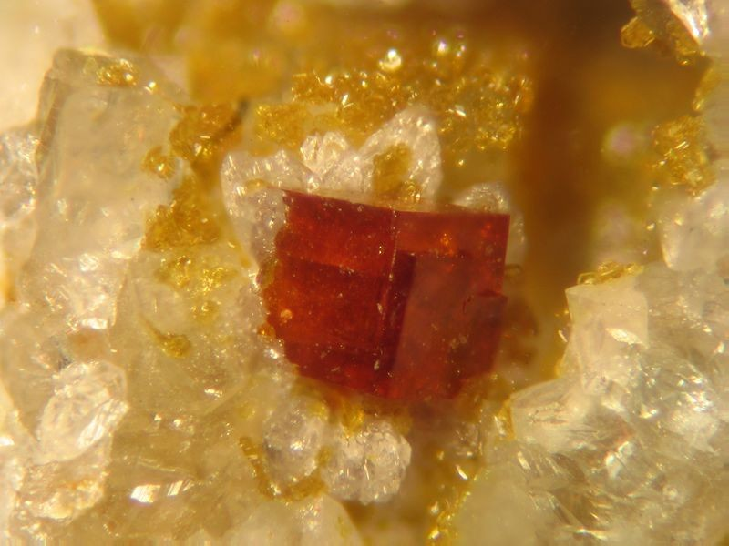 Bariopharmacosiderite, Scorodite, Alunite Supergroup (Field of view 3 mm) Locality: Les Montmins Mine (Ste Barbe vein), Échassières, Ébreuil, Allier, Auvergne, France Original description: Bariopharmacosiderite (red), Scorodite (blue to colorless), Alunite group (yellow; possibly kintoreite or corkite, beudantite, segnitite etc.). Photo and collection Queneau Patrice.